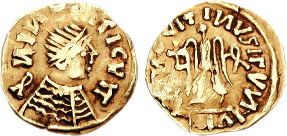 Merovingians, Civic Issues. Lausanne. AV Tremissis (1.33 g, 5h). Struck circa AD 560-585. Diademed, draped, and cuirassed bust right Victory standing facing, holding cross and wreath; W in left field. Cf. NM II p. 36, Type 3-2A, 1; Belfort 5280 var. (no W); MEC 1, 366. Fine, areas of light toning. From the Marc Poncin Collection. Ex Künker 94 (27 September 2004), lot 2126; Kölner Münkabinett 74 (19 April 2001), lot 210.